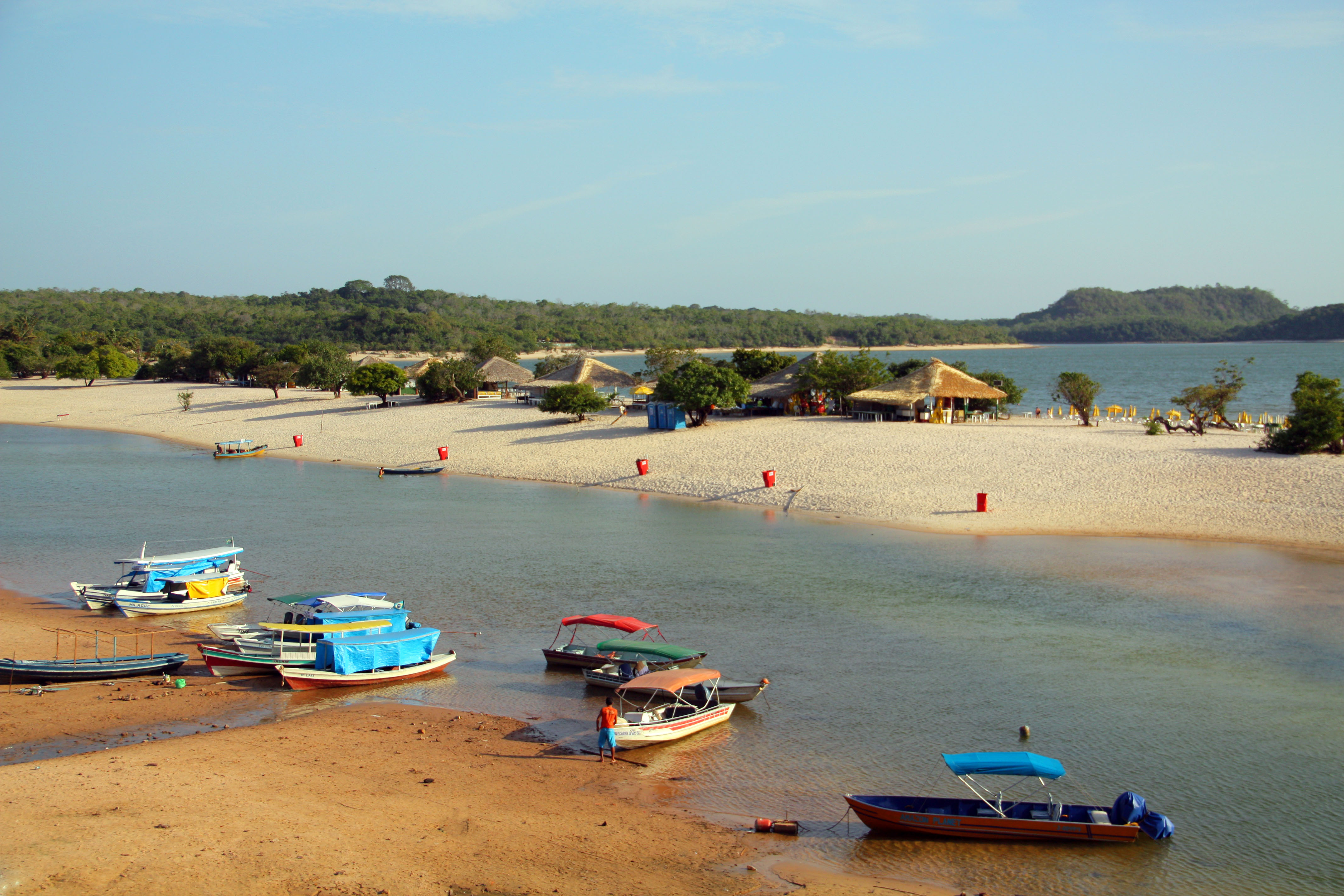 Ilho do Amor, Alter do Chão